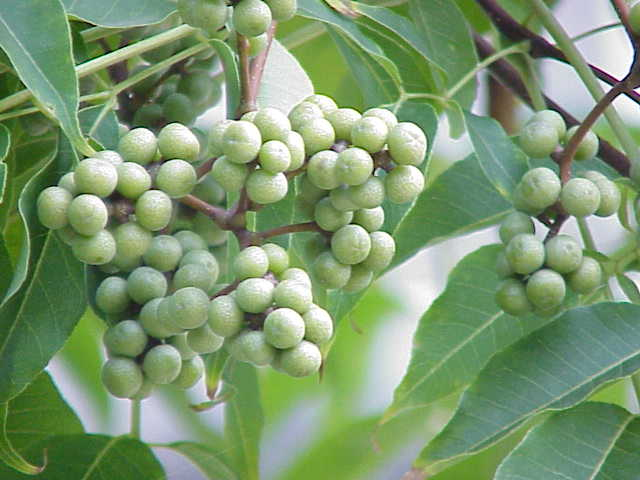 Species: Phellodendron amurense Family: Rutaceae Image No. 3